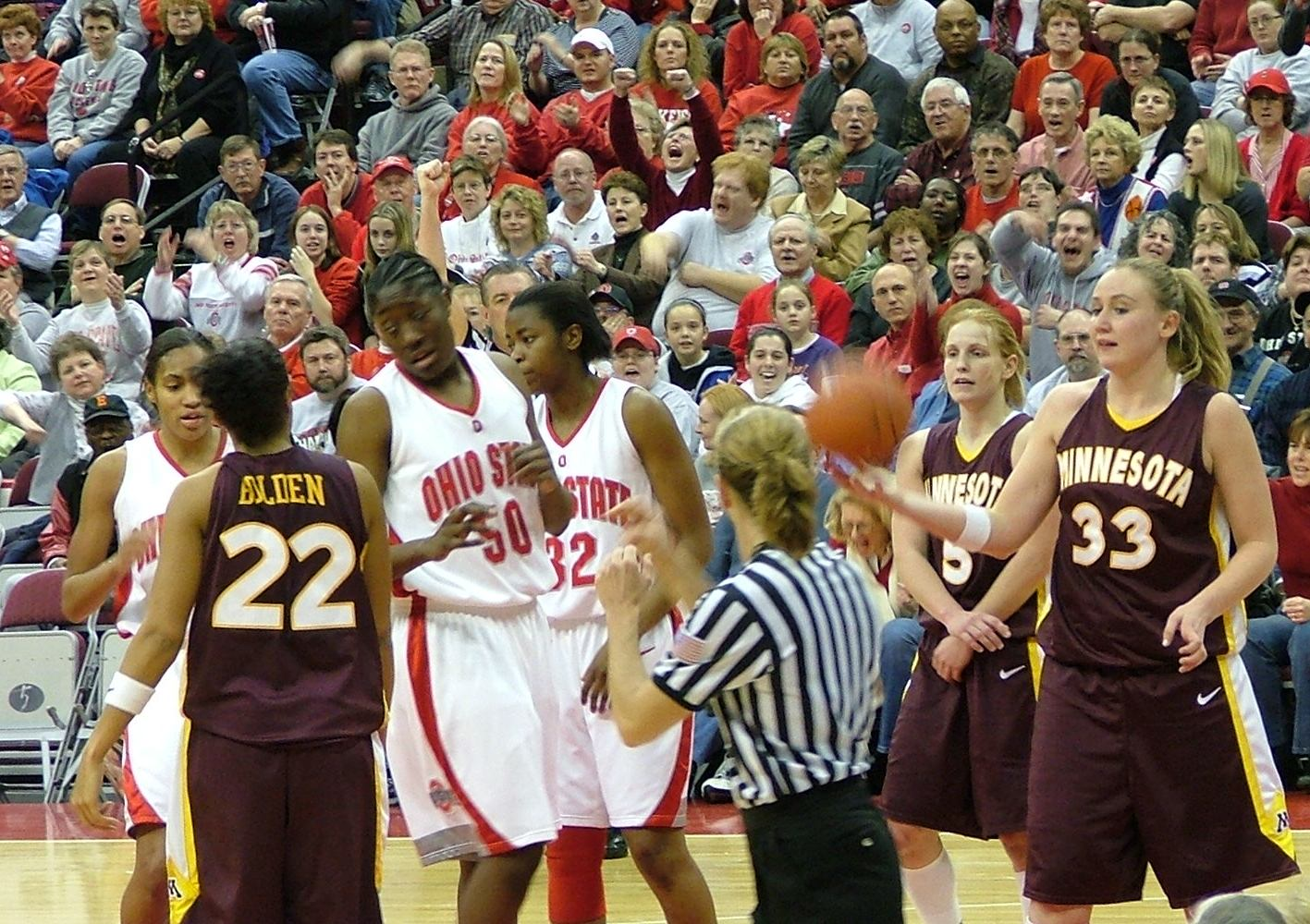 Minnesota Golden Gophers at Ohio State Buckeyes. Image is cropped.